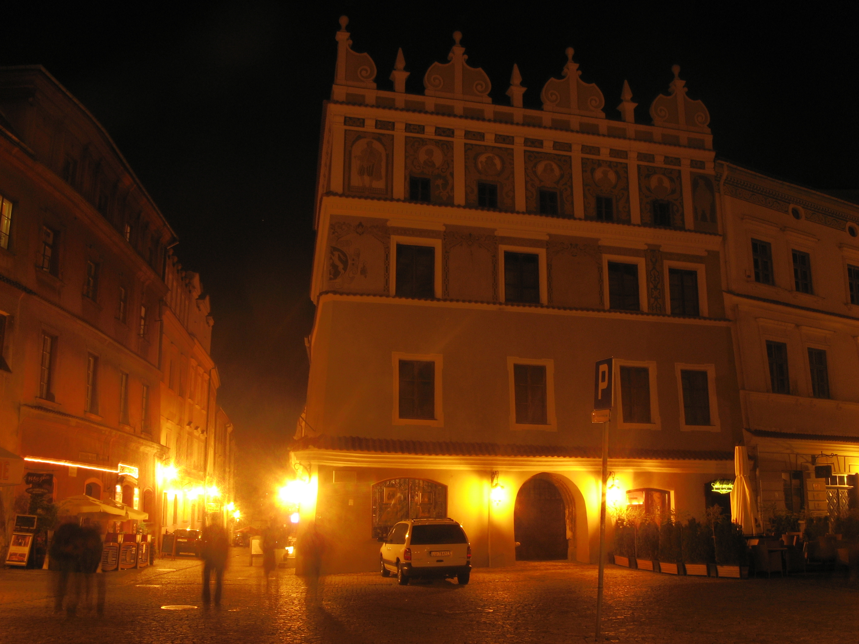 Chociszewska tenement house in Lublin Old Town